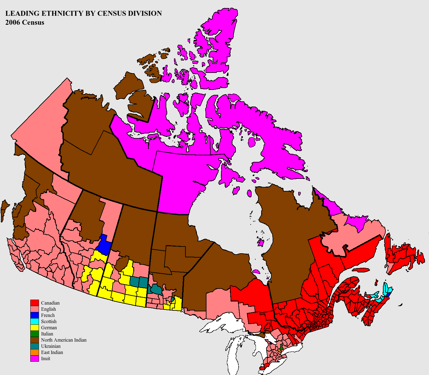 Map of the dominant self-identified ethnic origins of ancestors per census division. Actual physical origins of ancestors may be different.